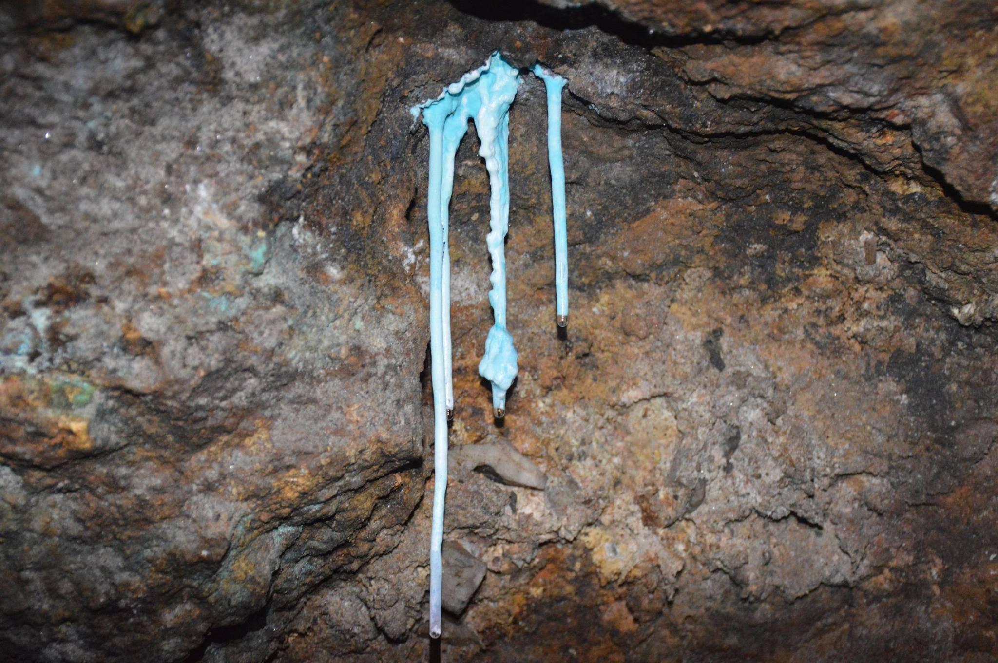 Cyprus hydroxide Hilarion Mine Kamariza Mines, Agios Konstantinos [St Constantine], Lavrion District Mines, Lavrion District, Attikí Prefecture, Greece